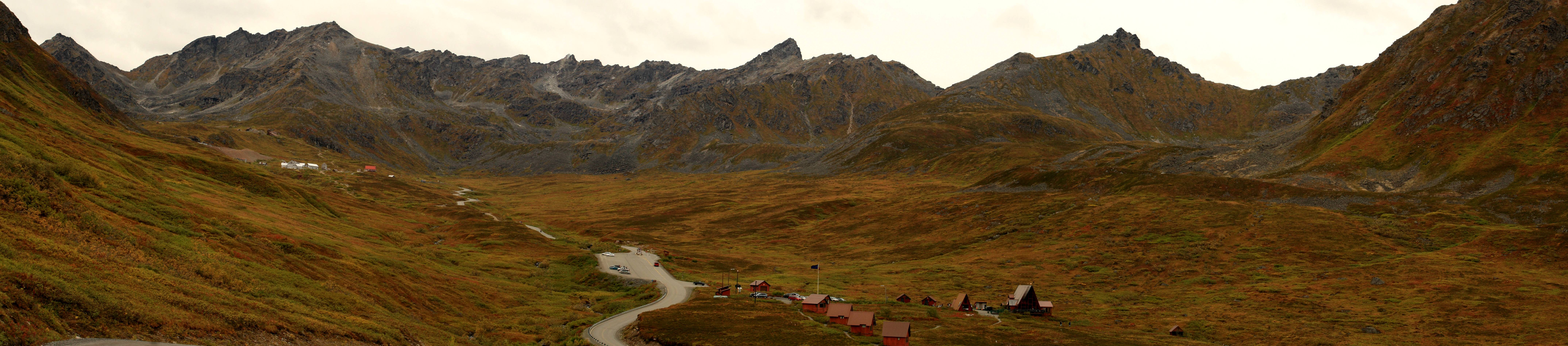 Hatcher Pass, about an hour from Anchorage, Alaska in September 2008.